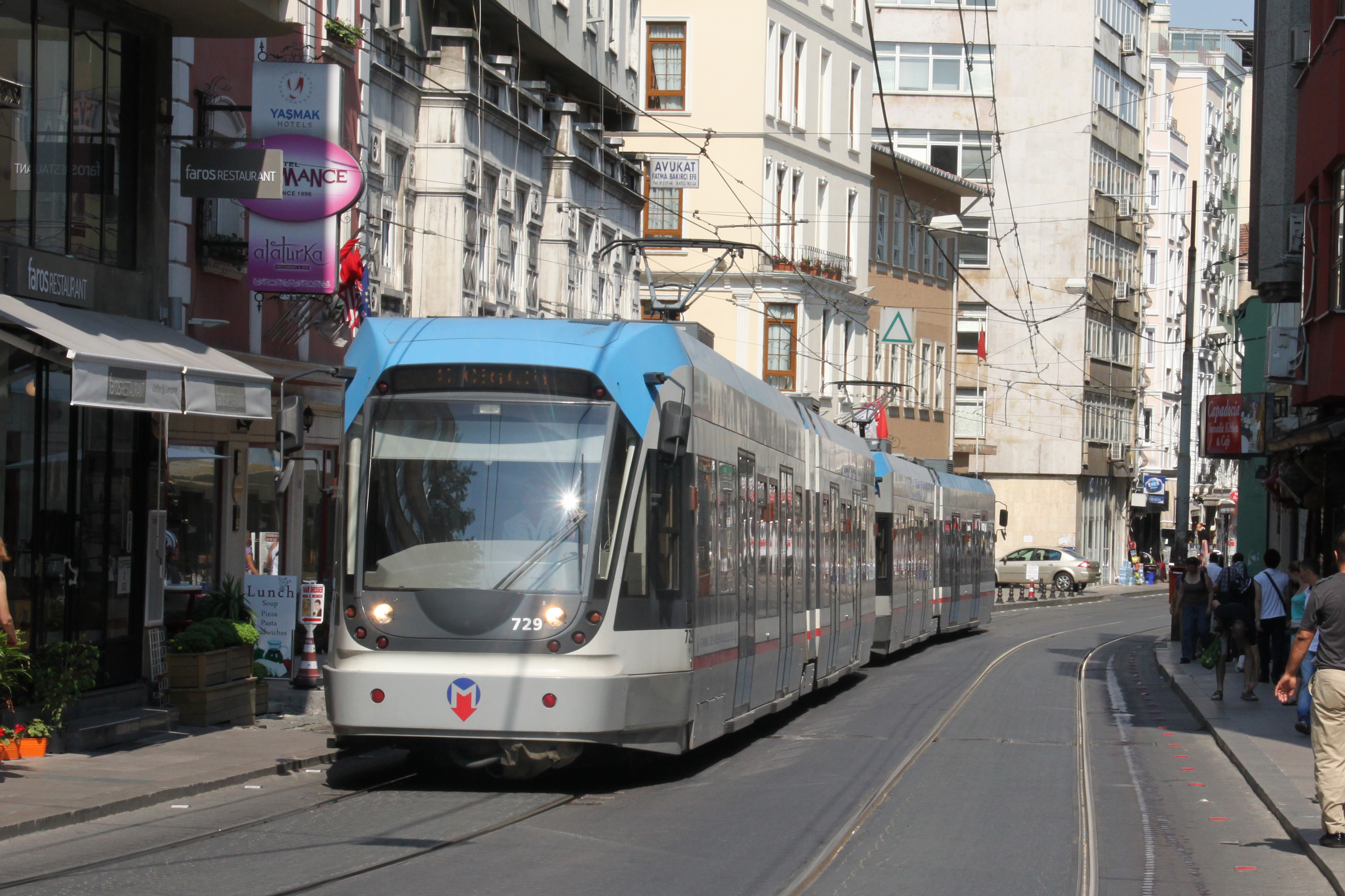 2 Bombardier Flexity Trams runs through Hudavendigar Cd heading towards Kabataş in Istanbul.